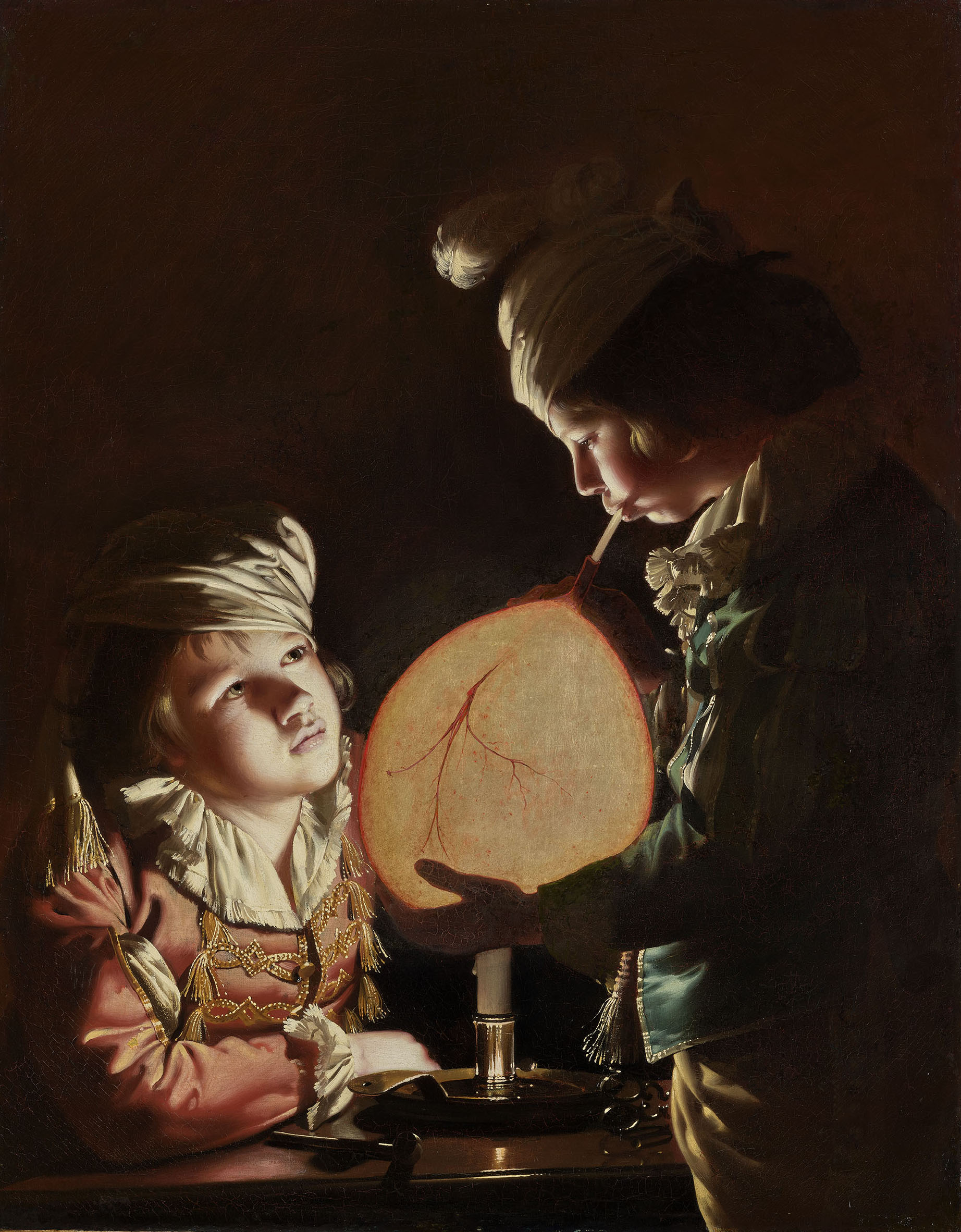 Two Boys with a Bladder by Joseph Wright of Derby, about 1769-70, oil on canvas, 36 ½ × 28 ¾ inches; 927 × 730 mm